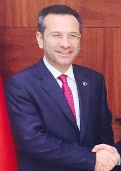 Head of OSCE PA Delegation of observers Ignacio Sanchez Amor (right) with Diyarbakir Governor Huseyin Aksoy, 4 June 2015